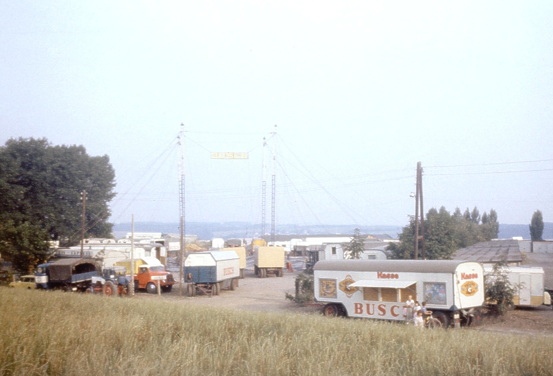 Circus Busch (State Circus of East Germany) in Zeulenroda